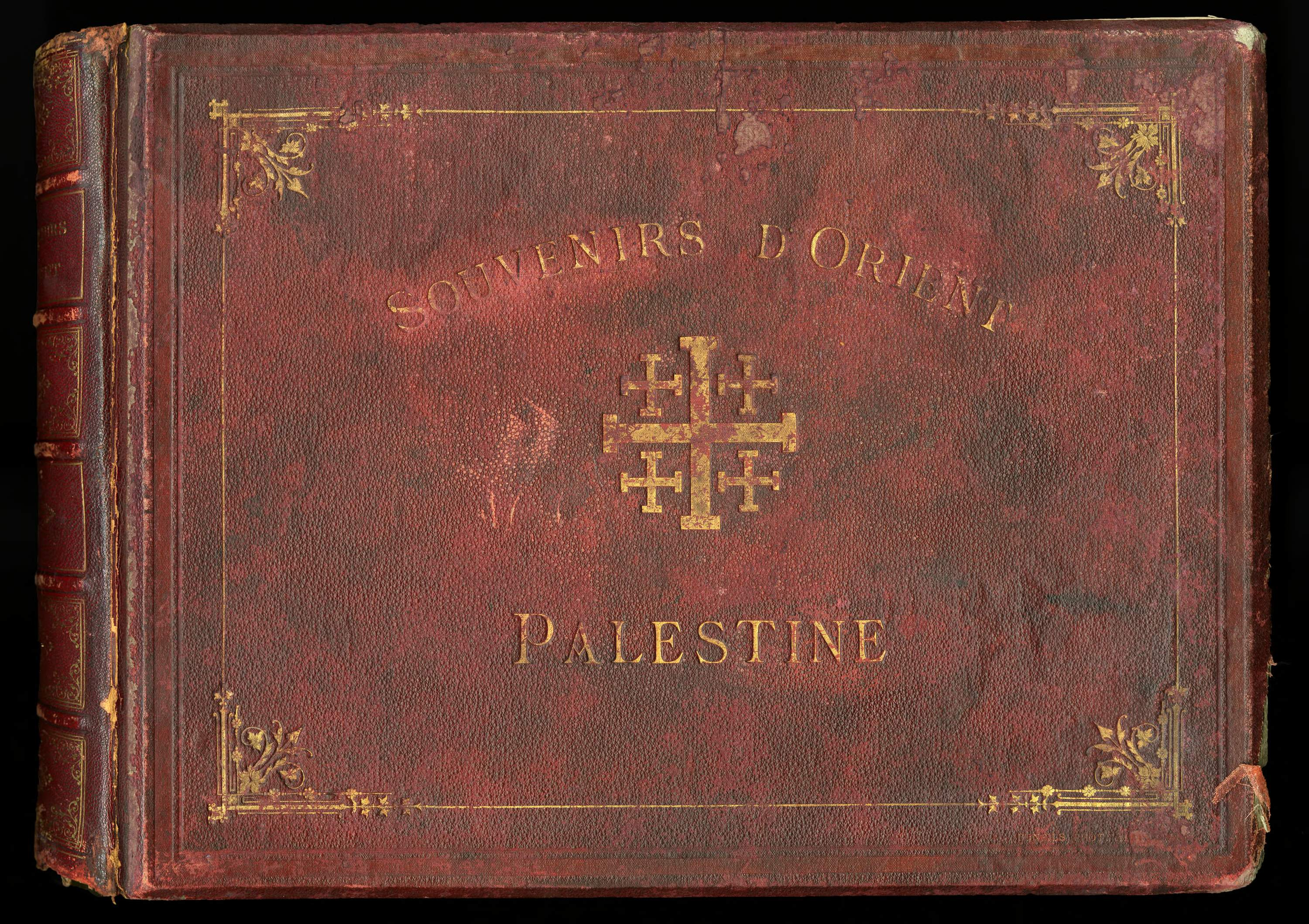 Félix Bonfils (1878) Souvenirs d'Orient : album pittoresque des sites, villes et ruines les plus remarquables de la Terre-Sainte[1], à Alais (Gard) : Chez l'auteur